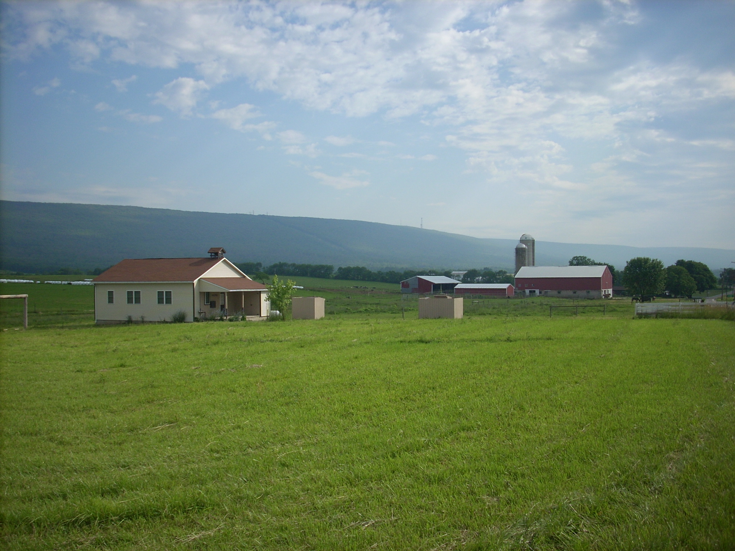 An Amish school in Washington Township, Lycoming County, Pennsylvania. It is just off Pennsylvania Route 554 south of South Williamsport.